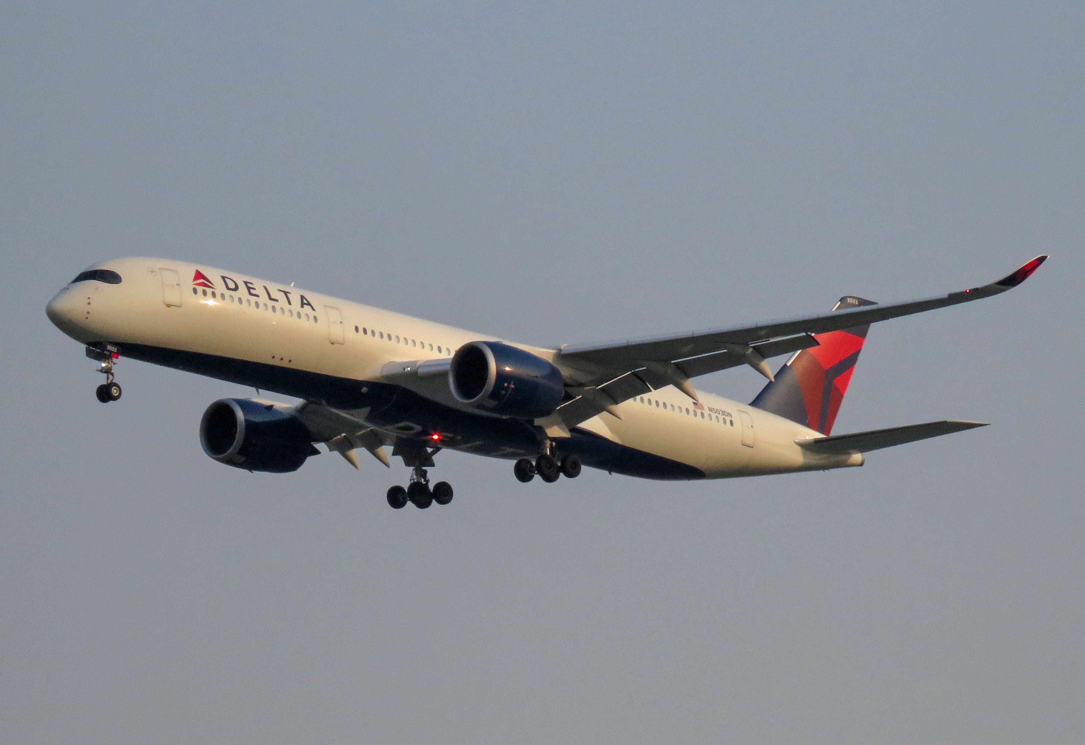 Delta 189 from Detroit. Enough light, but also accompanied with some haze.